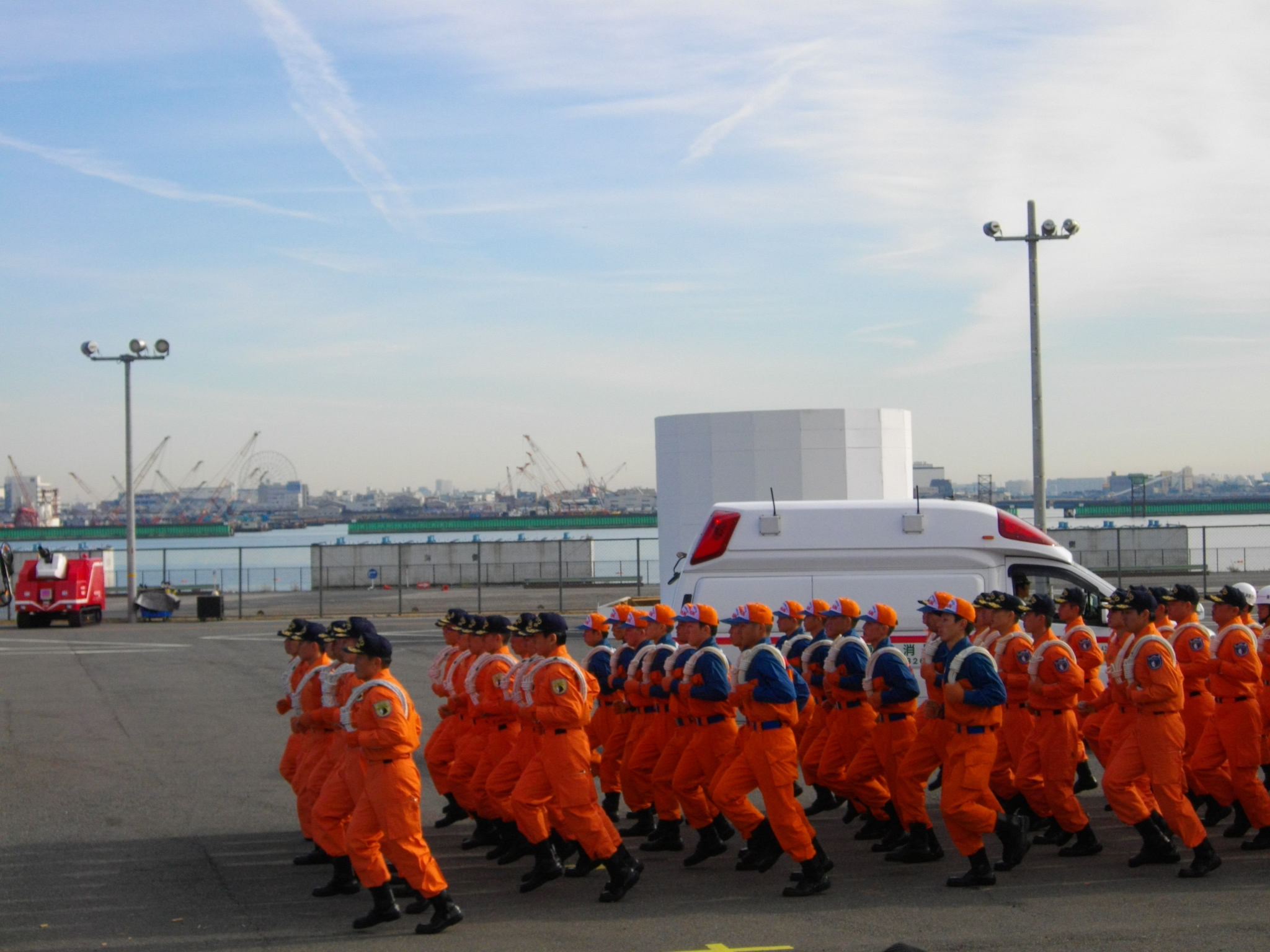 2013 Tokyo Fire Department Dezome Ceremony(Hyper Rescue team)